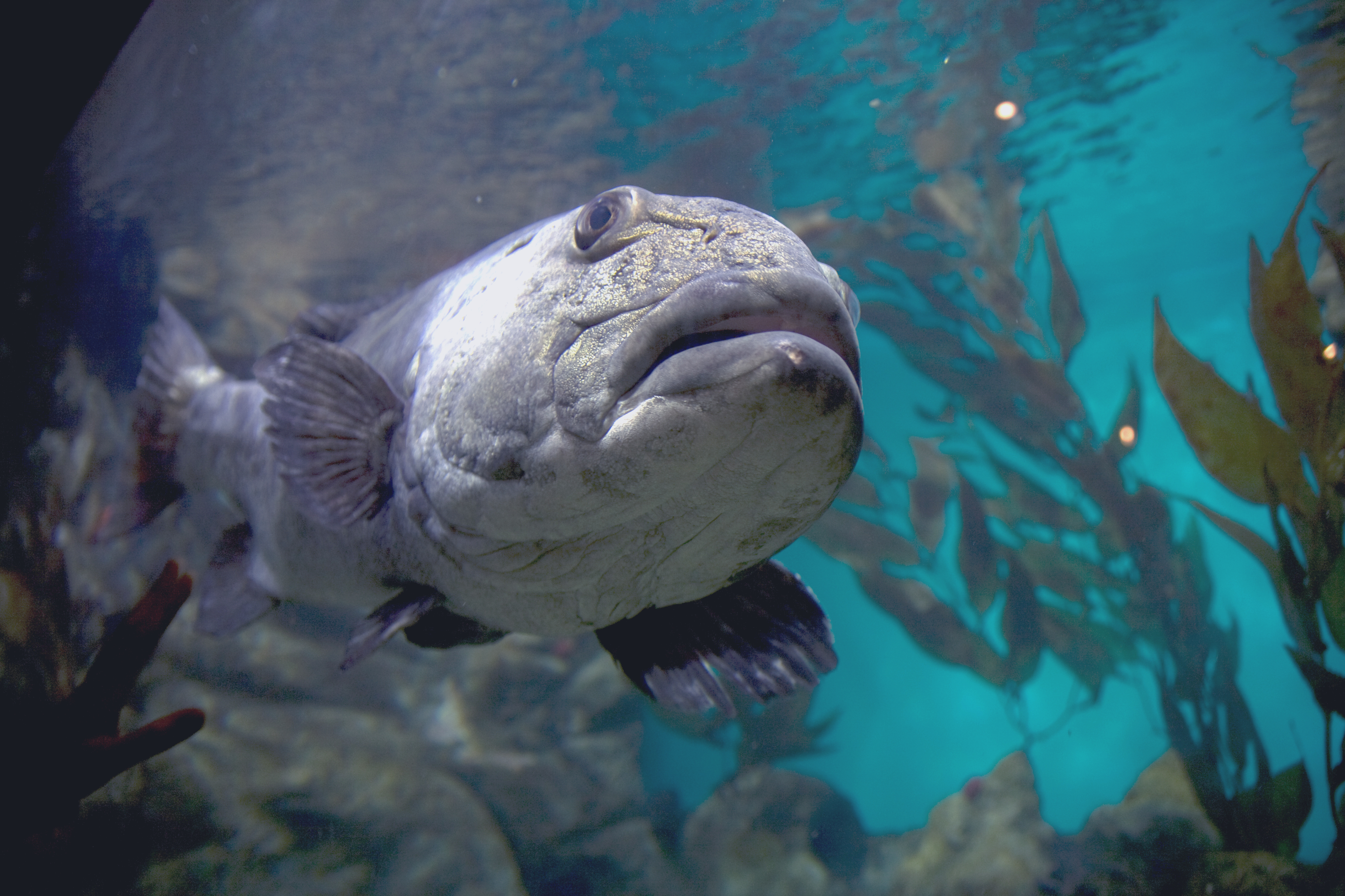 The Giant Sea Bass at the California Academy of Sciences.